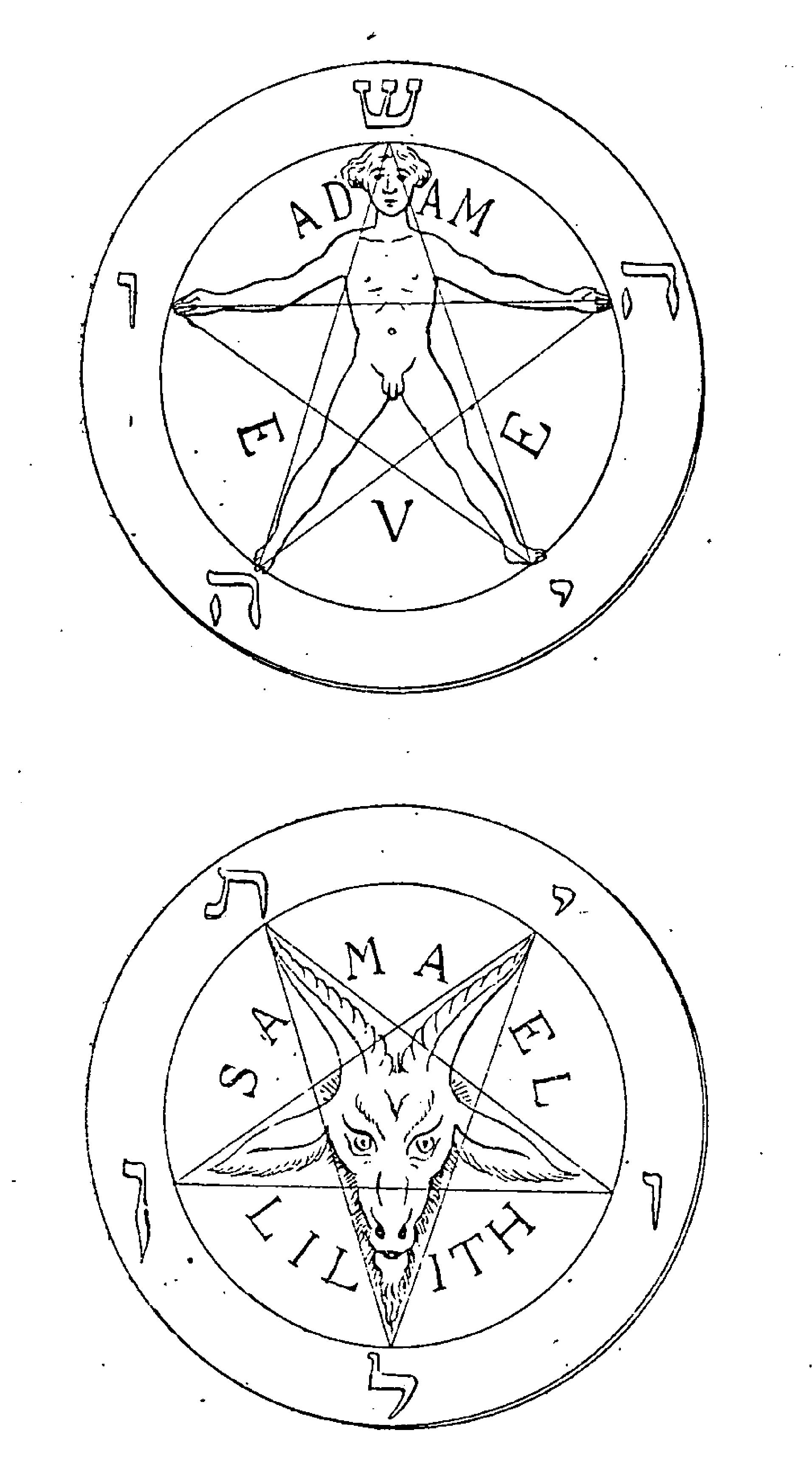 Two pentagrams taken from the 1897 book La Clef de la Magie Noire by Stanislas de Guaita. Page 417. The upper Pentacle is "white", including the "Pentagrammaton" at the vertices of the pentagram (i.e. an incorrect attempt to derive a version of the Hebrew name of Jesus by adding the letter shin ש in the middle of the Tetragrammaton divine name yod-he-waw-he יהוה). The lower Pentacle is "black", with the Hebrew letters for Leviathan at the vertices of the pentagram. Note that the idea that a pentagram with one point down is "bad" (in contrast to a pentagram with one point up which is "good") basically originated with mid-19th century French occultist Eliphas Lévi. Anton LaVey, the founder of the Church of Satan based his “Sigil of Baphomet” on this image: a goat face in a five-pointed star (one point down), with “Leviathan” written in Hebrew in two concentric circles surrounding the pentagram.